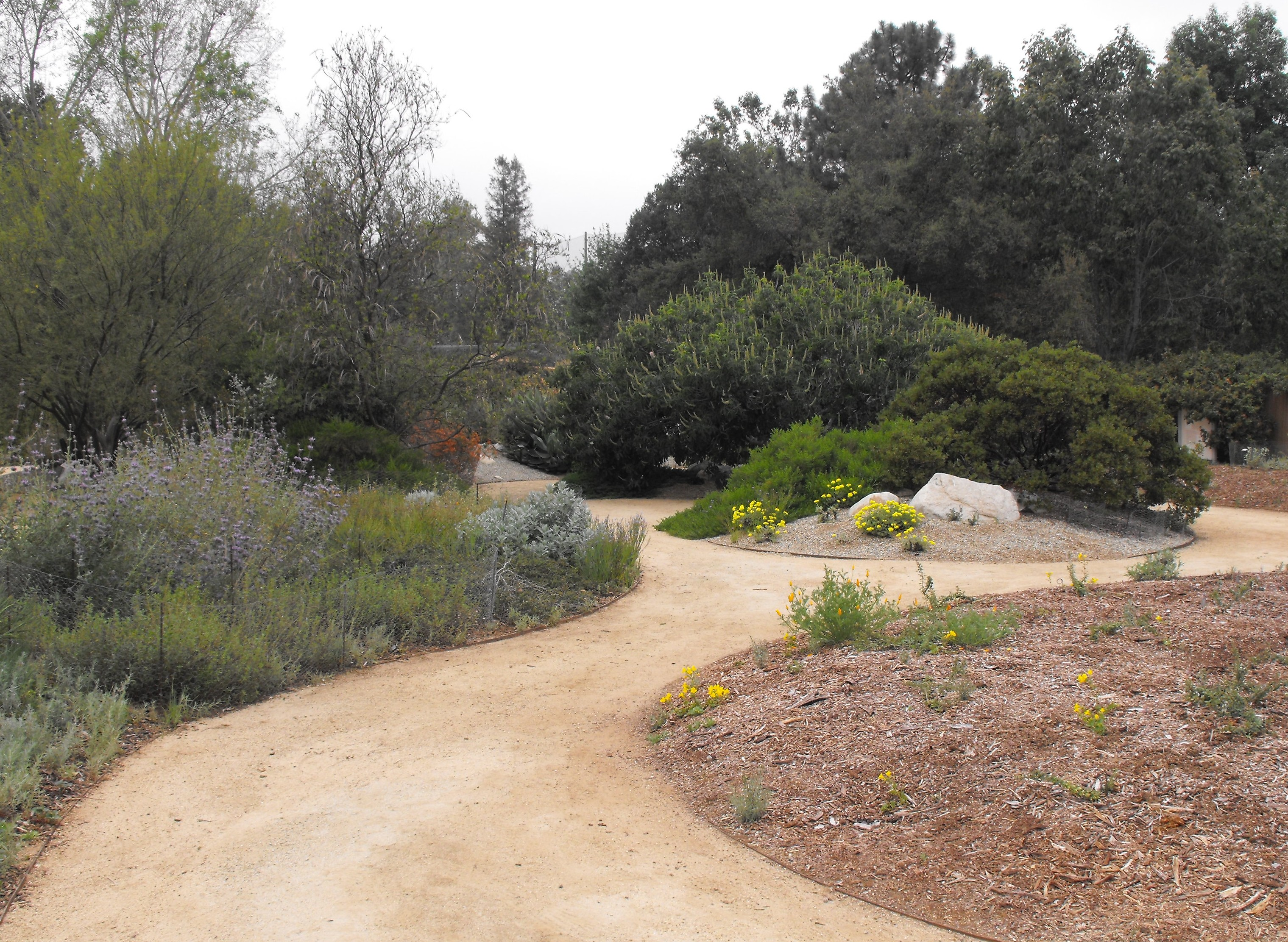 The California Native's hybrids & cultivars garden. At the Rancho Santa Ana Botanic Garden in, Southern California, U.S.